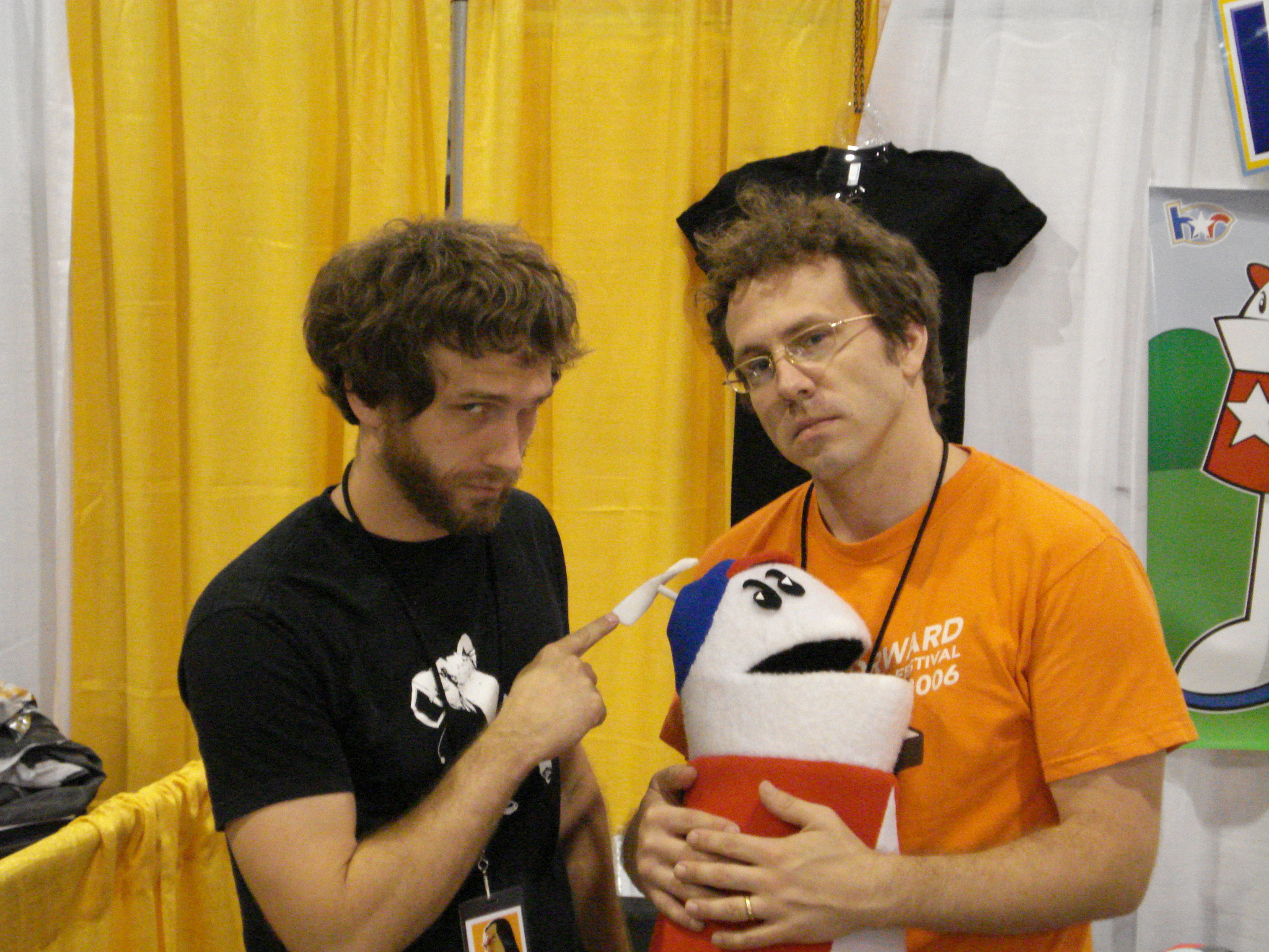 Photo of Matt Chapman(l) and Mike Chapman(r), The Brothers Chaps, taken at HeroesCon 08 in Charlotte, North Carolina on June 20, 2008.